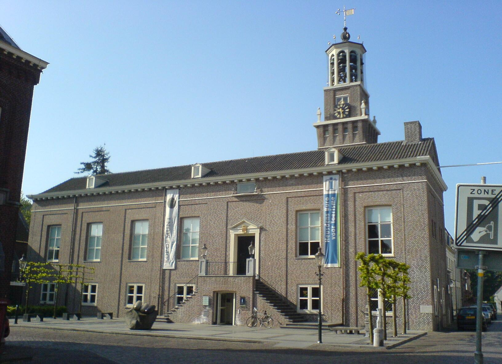 City hall of Dutch municipality Heusden